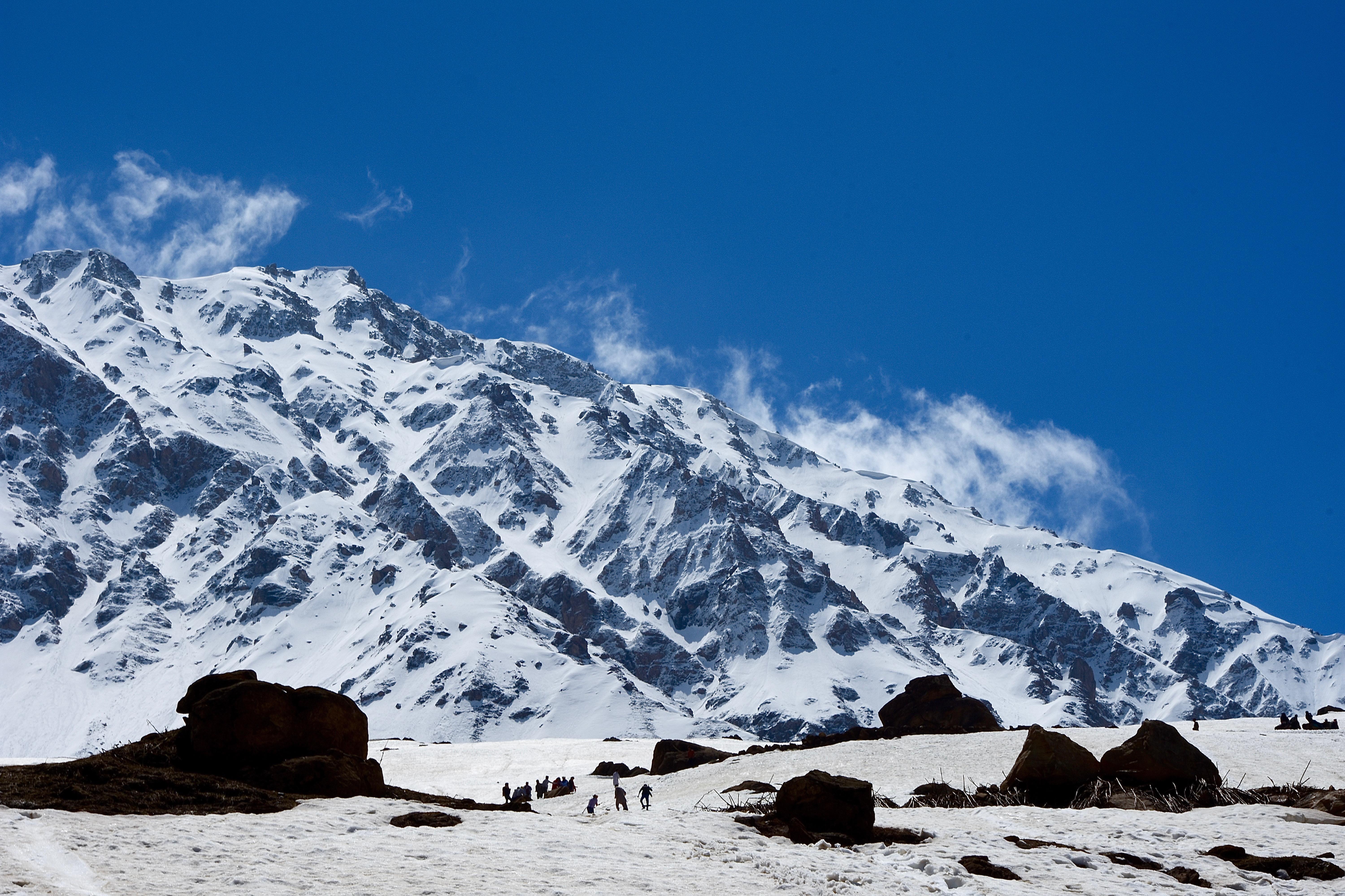 Kaghan Valley is an alpine-climate valley in Mansehra District of the Khyber Pakhtunkhwa Province of Pakistan. Kaghan Valley is a beautiful place. The tourists from across the country come to visit this place.